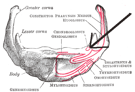 Hyoid bone. Anterior surface. Enlarged.